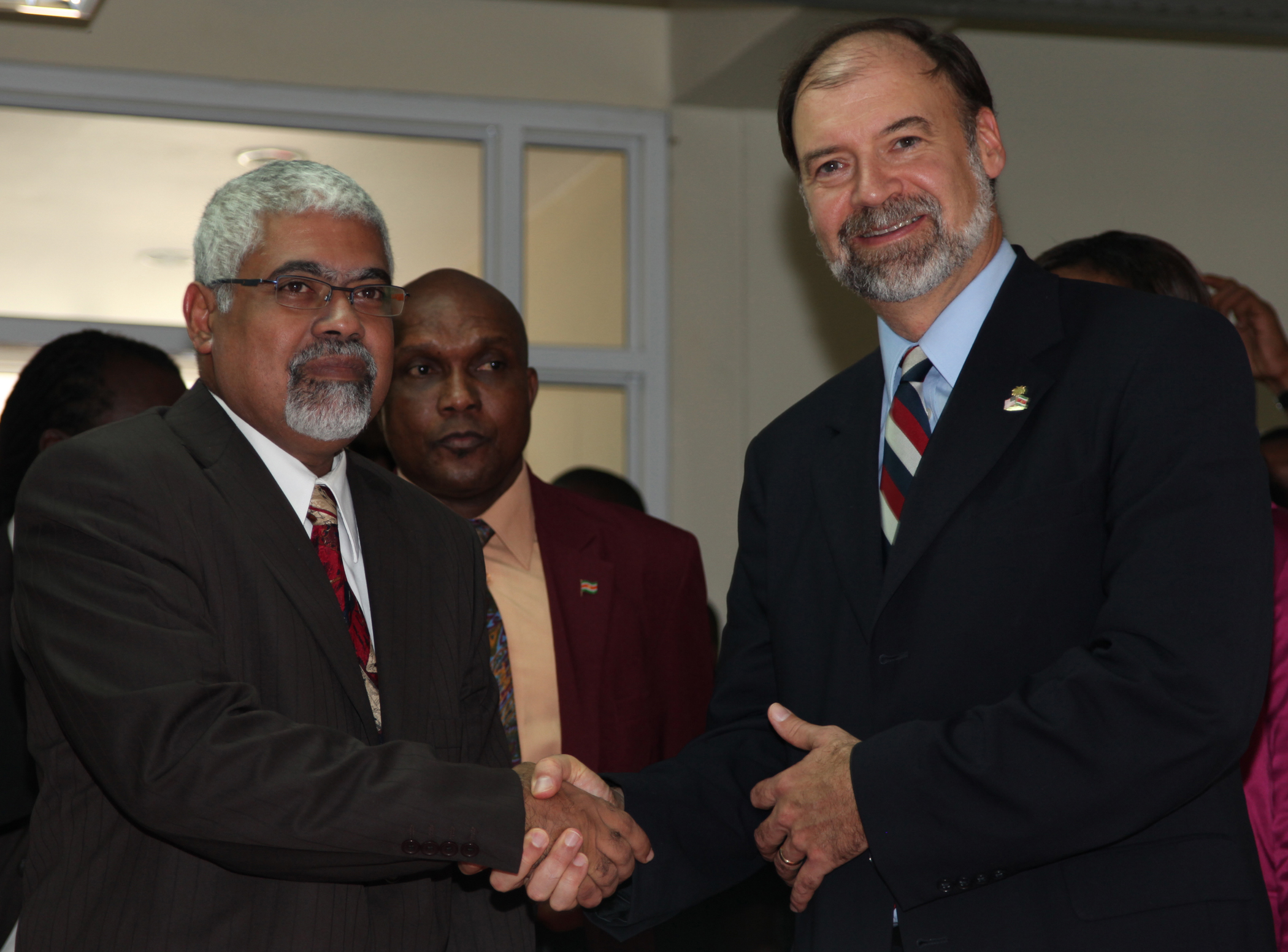 Robert Ameralli, vice president of Suriname, shakes hands with John R. Nay, U.S. Ambassador to Suriname, after a ribbon cutting during the opening ceremony of Continuing Promise 2010 at Elsje Finck Sanichar College in Paramaribo, Suriname, Oct. 29, 2010. The college is being used as a medical site for CP10 personnel to provide aid to Surinamese citizens. Marines and Sailors of CP10 are anchored off the coast of Paramaribo, Suriname to conduct humanitarian operations for 10 days. CP10 is a humanitarian civic assistance mission that provides medical, dental, veterinary, engineering support and disaster relief efforts to the Caribbean, Central and South America.